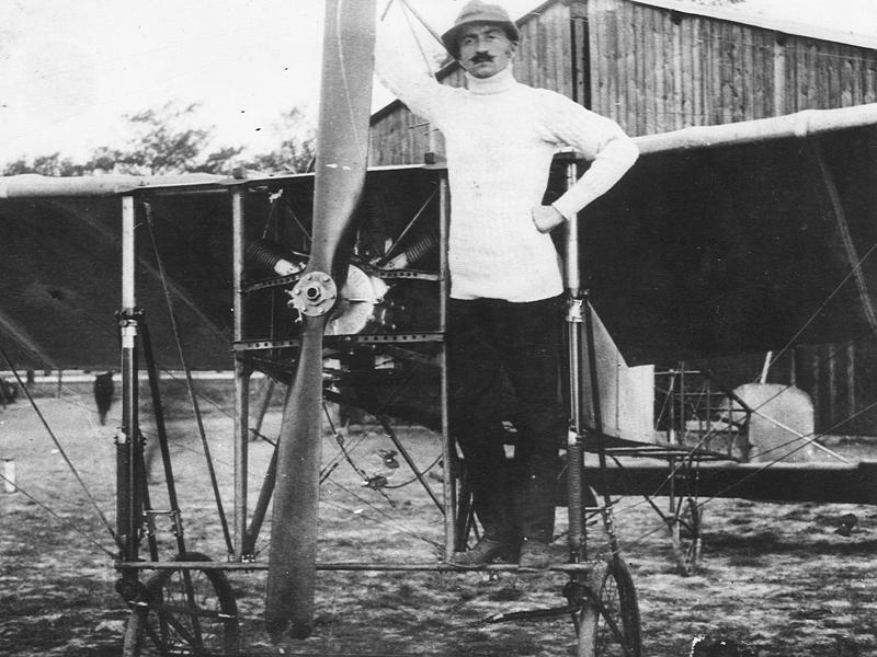 Captain Fesa bey